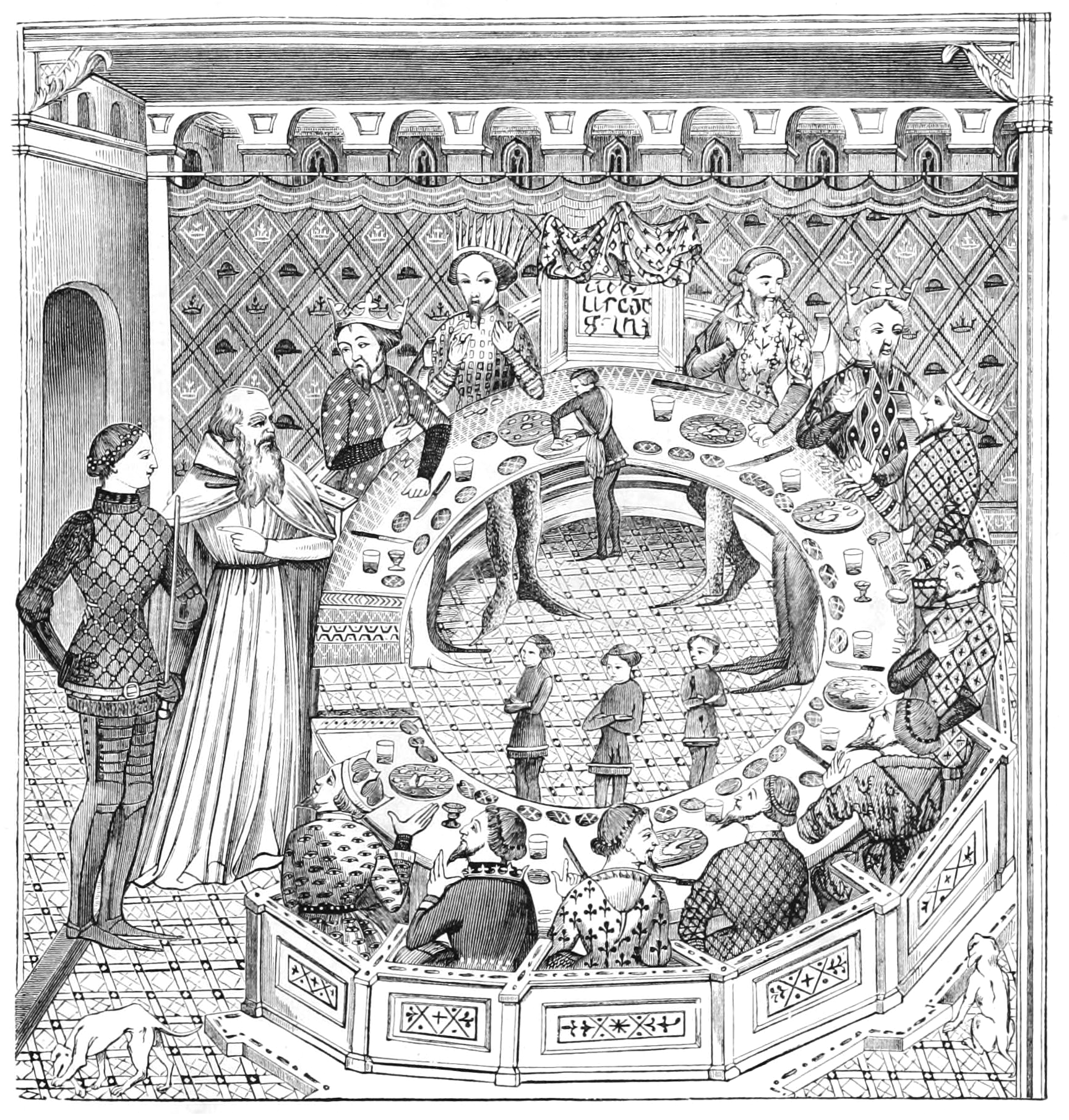 King Arthur’s Round Table, engraved from a 14th-century miniature